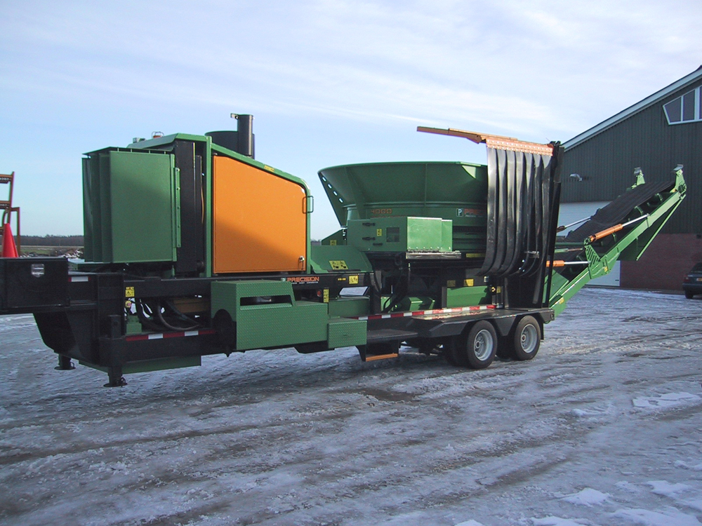 Precision Husky Tubgrinder